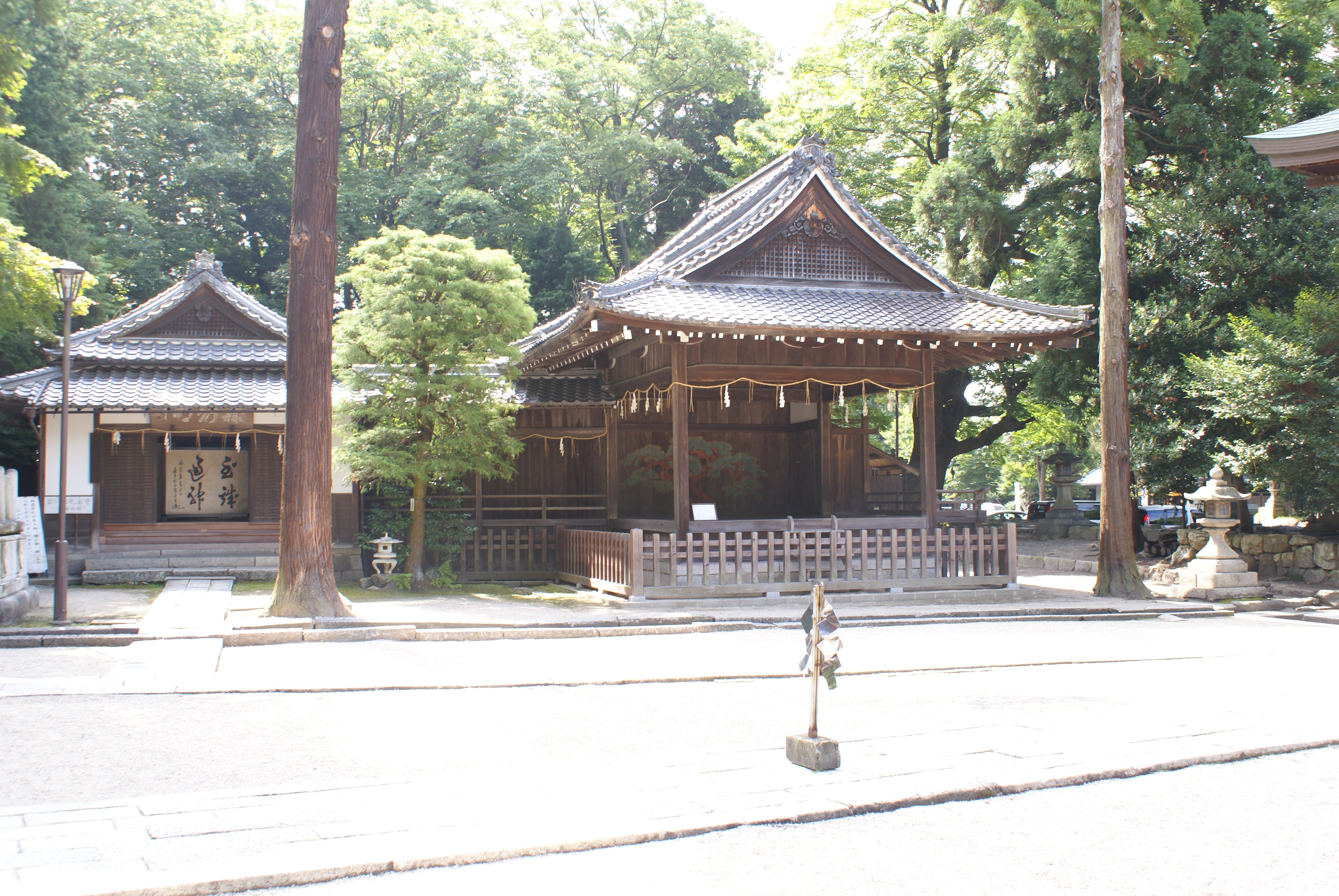 Noh butai, Himure-Hachimangu shrine, Ohmi-Hachiman